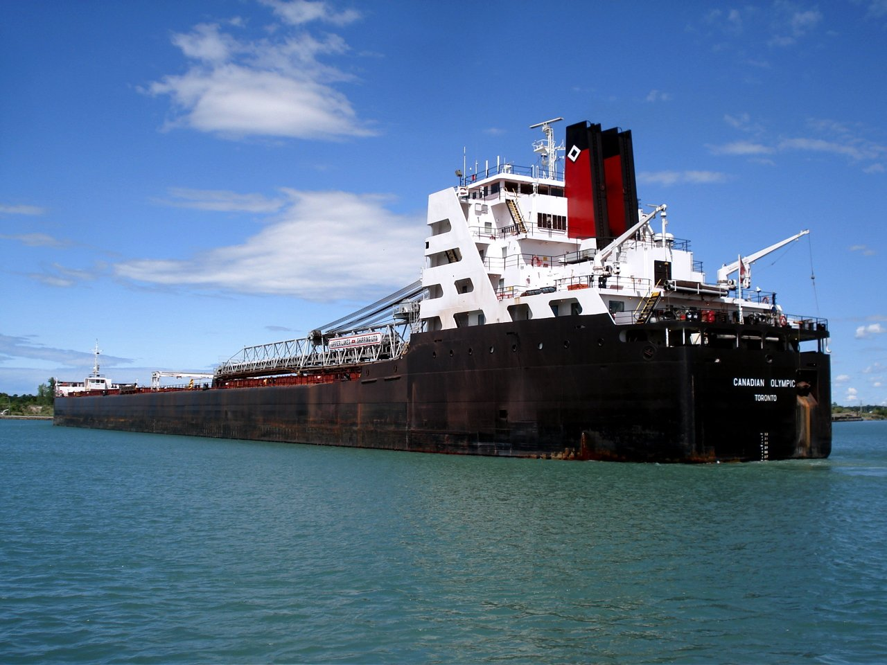 MS Canadian Olympic crossing Welland Canal (31,250 DWT, length 220.55 m, Seaway Marine Transport) IMO: 7432783